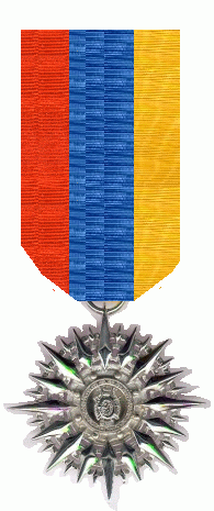 Condecoración Estrella de Carabobo